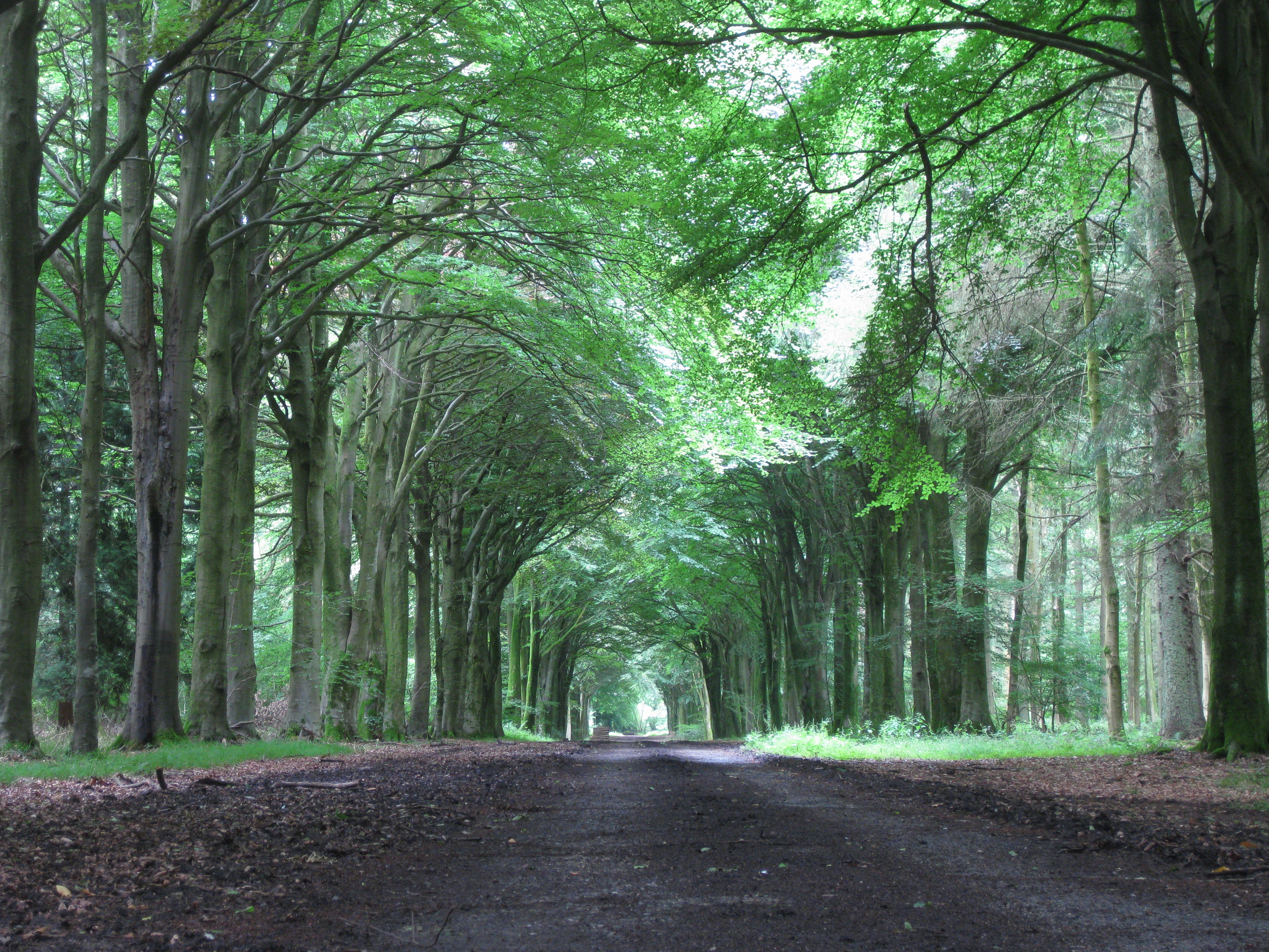 Grovely Woods on the Wilton Estate, Wiltshire. Looking along the roman road.